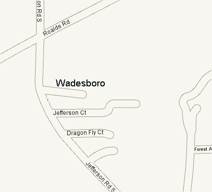 Map reading "Wadesboro"